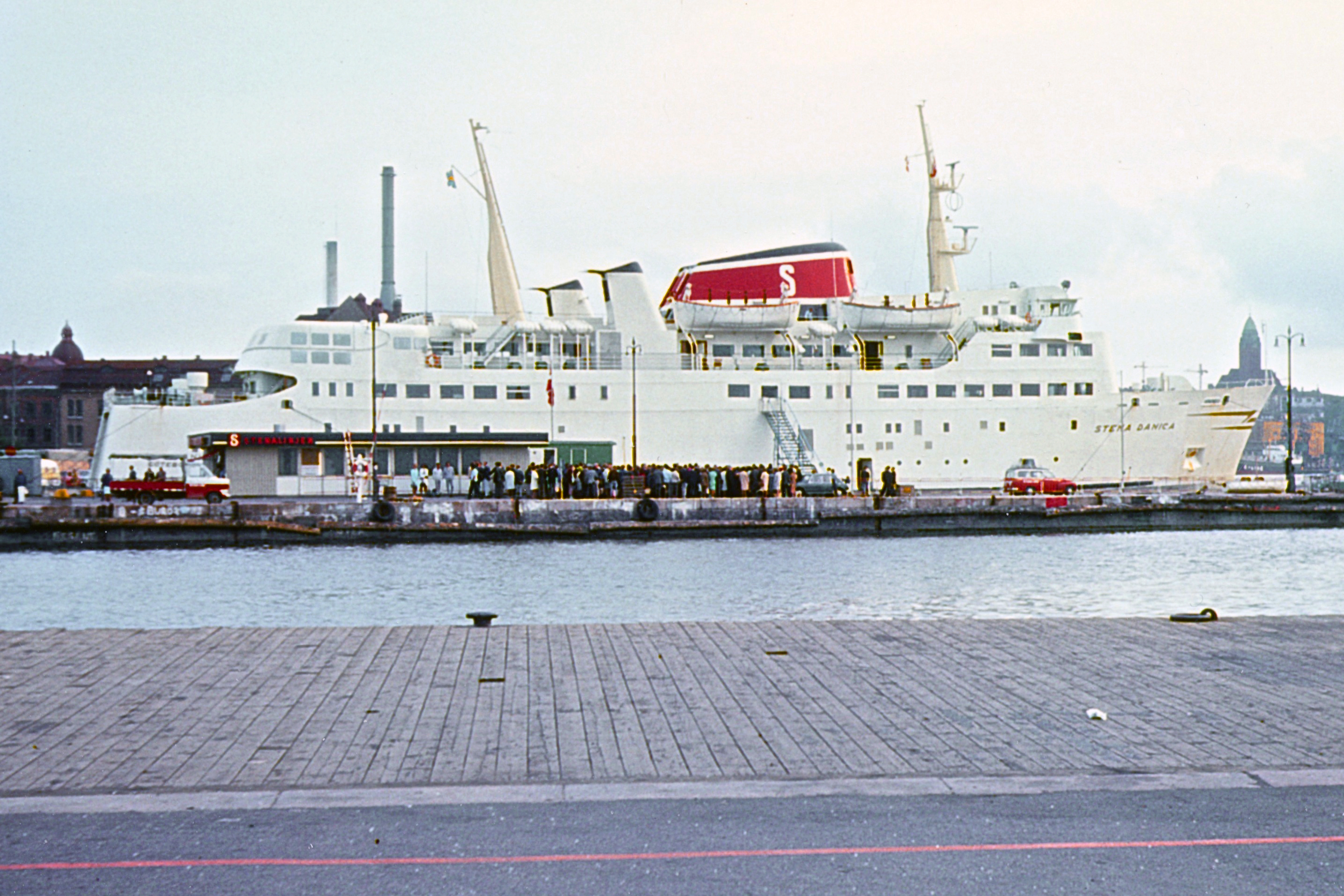 The original MS Stena Danica cruiseferry in the harbour of Gothenburg.